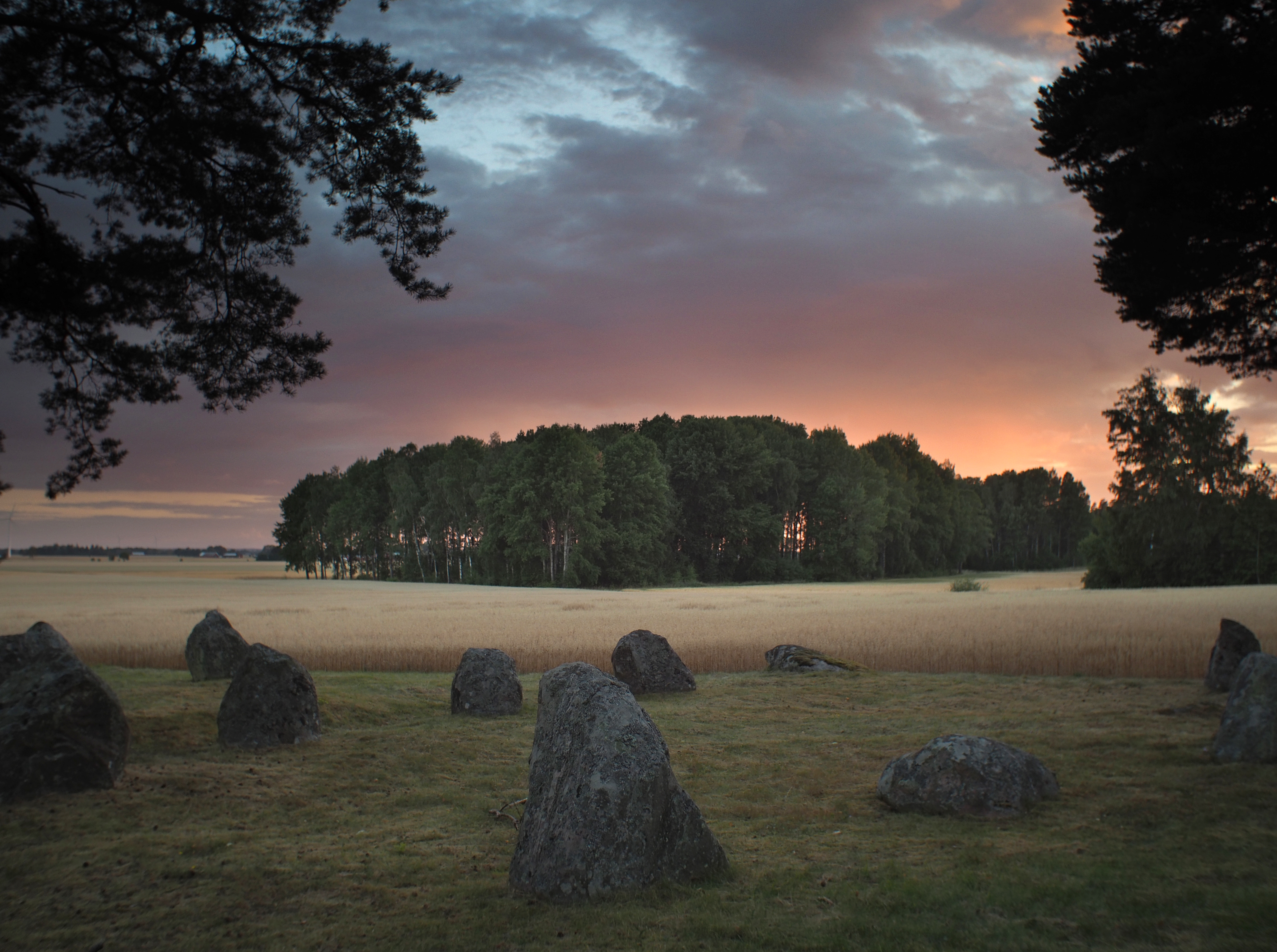 The sun is setting on some of the stones and stone formations which constitute the Brakelund burial ground at Hasslösa, Lidköping municipality, Sweden.